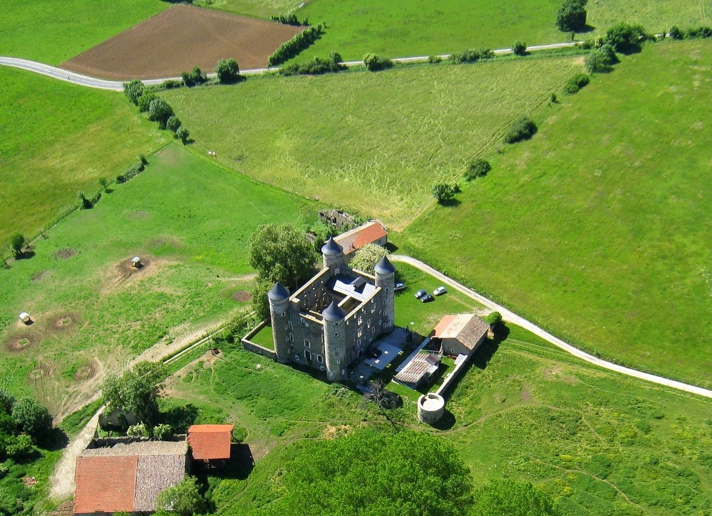 Bon Repos Castle, Jarrie